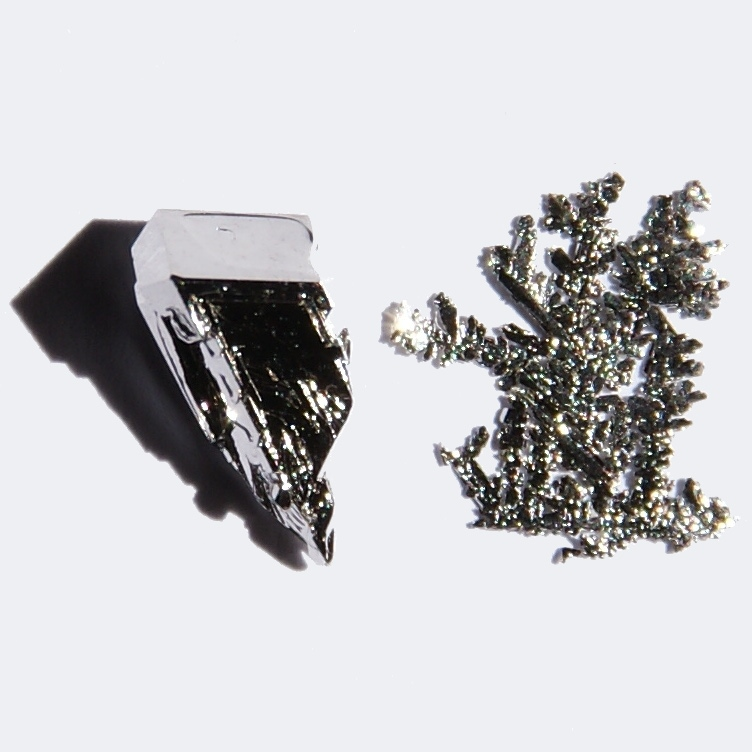 Two platinum crystals, about 1 cm in size.